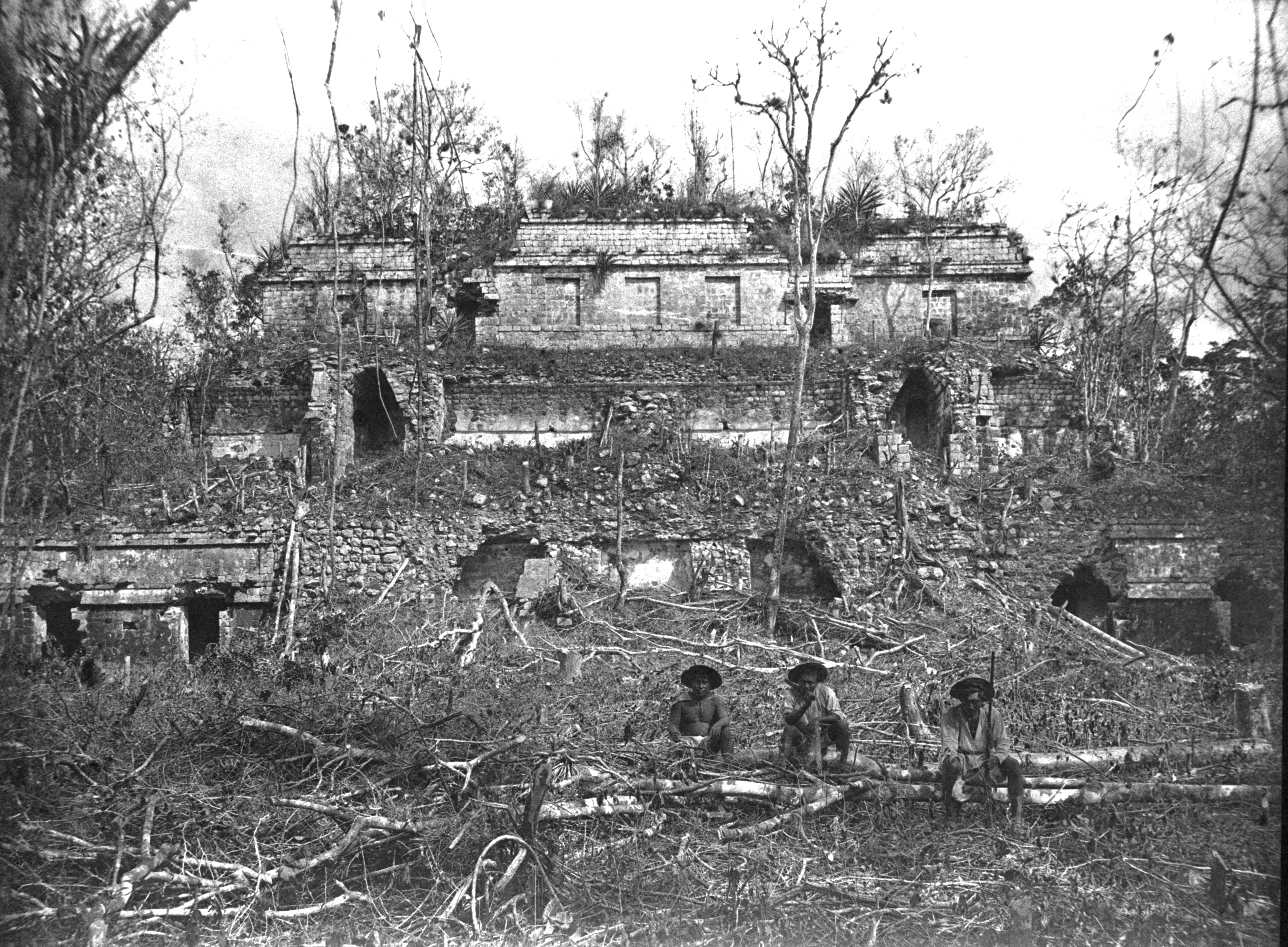 Santa Rosa Xtamapak, Campeche, Mexico: Palace, rear facade (Maler photograph)